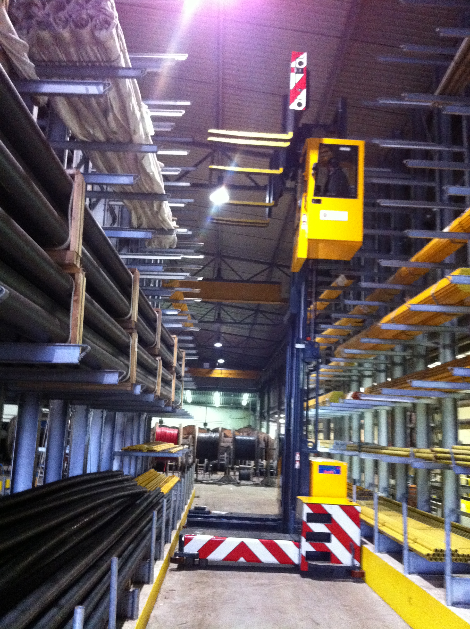 combilift manup